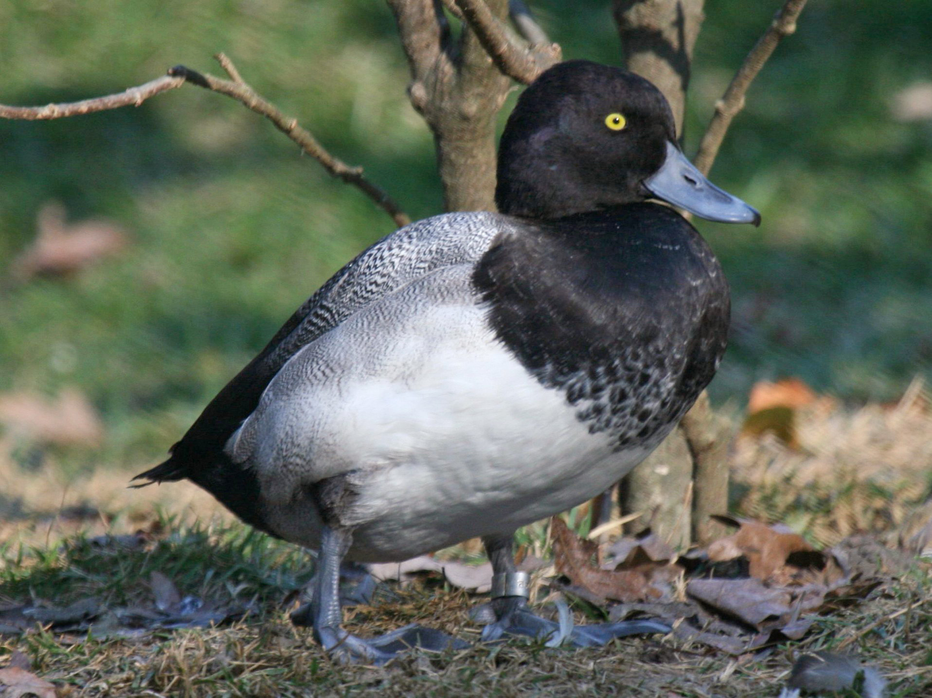 ♂ Lesser Scaup (Aythya affinis) at Sylvan Heights Waterfowl Park in Scotland Neck, North Carolina.